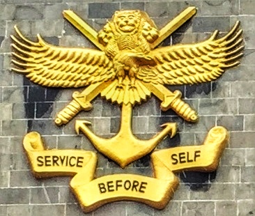 National Defence Academy,Haveli,Maharashtra,India